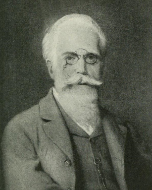 Hungarian composer and musical teacher Ödön Mihalovich (1842—1929), the head of Budapeszt conservatory. Picture from the book of Eugène d'Harcourt "La musique actuelle en Allemagne et Autriche-Hongrie. Conservatoires, Concerts, Théâtres" (Paris, 1908)